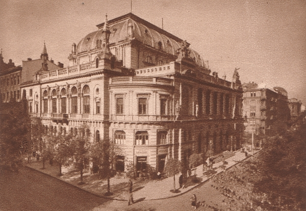 The Warsaw Philharmonic, Poland